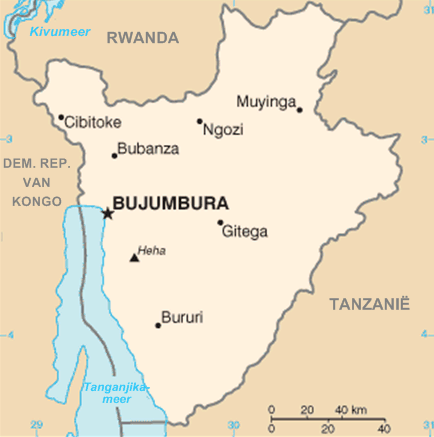 An Afrikaans map of Burundi.